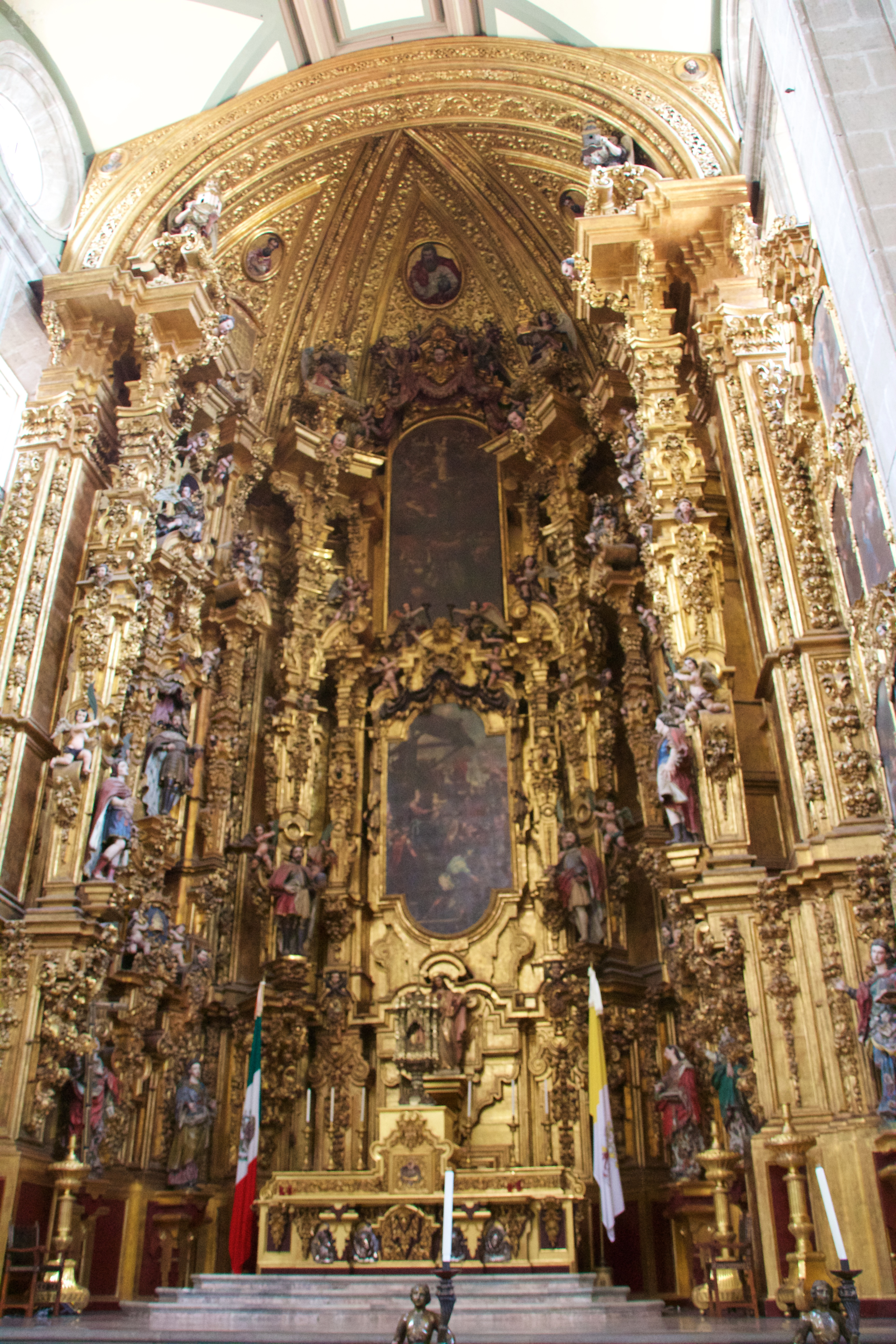 Metropolitan Cathedral of Mexico City, Mexico City, Mexico.